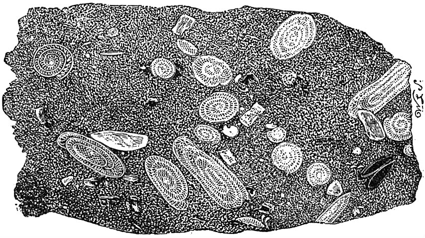 Section of Fusulina Limestone